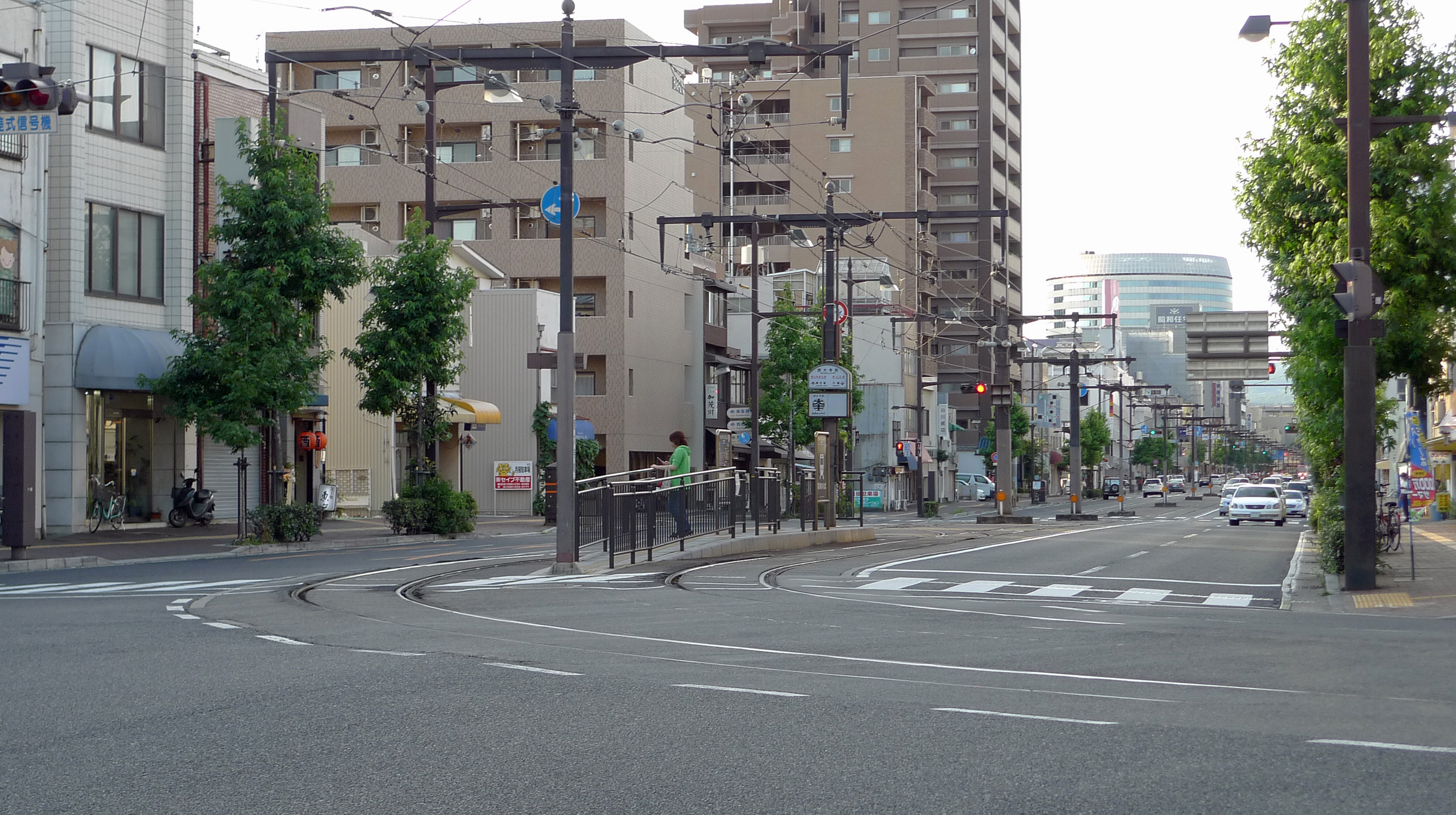 Okayama Electric Tramway Saidaiji-cho Station